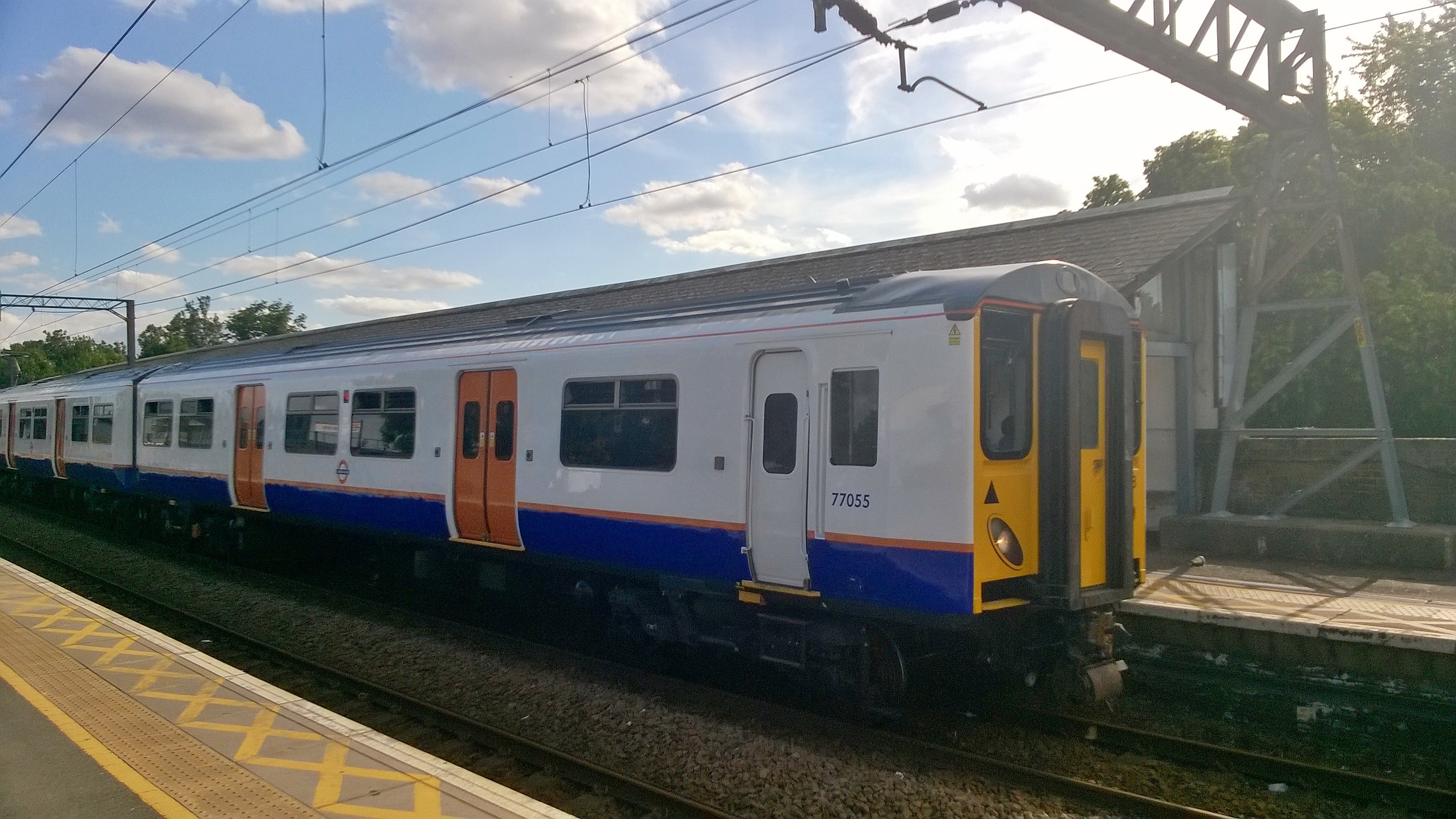 Unit 317708 at Seven Sisters railway station